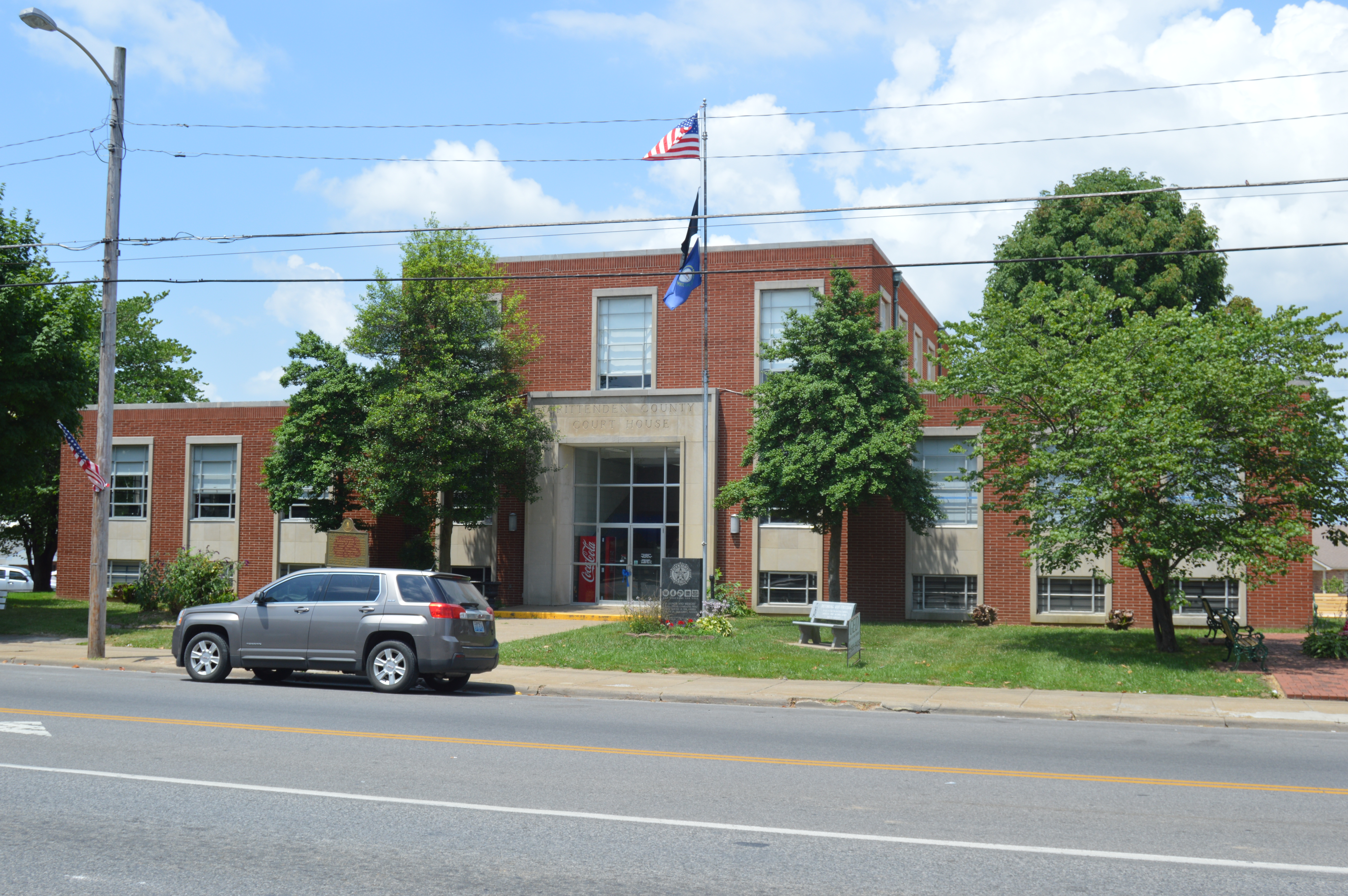 Front of the Crittenden County Courthouse, located at 107 S. Main Street (U.S. Route 60) in downtown Marion, Kentucky, United States. It was built in 1961.